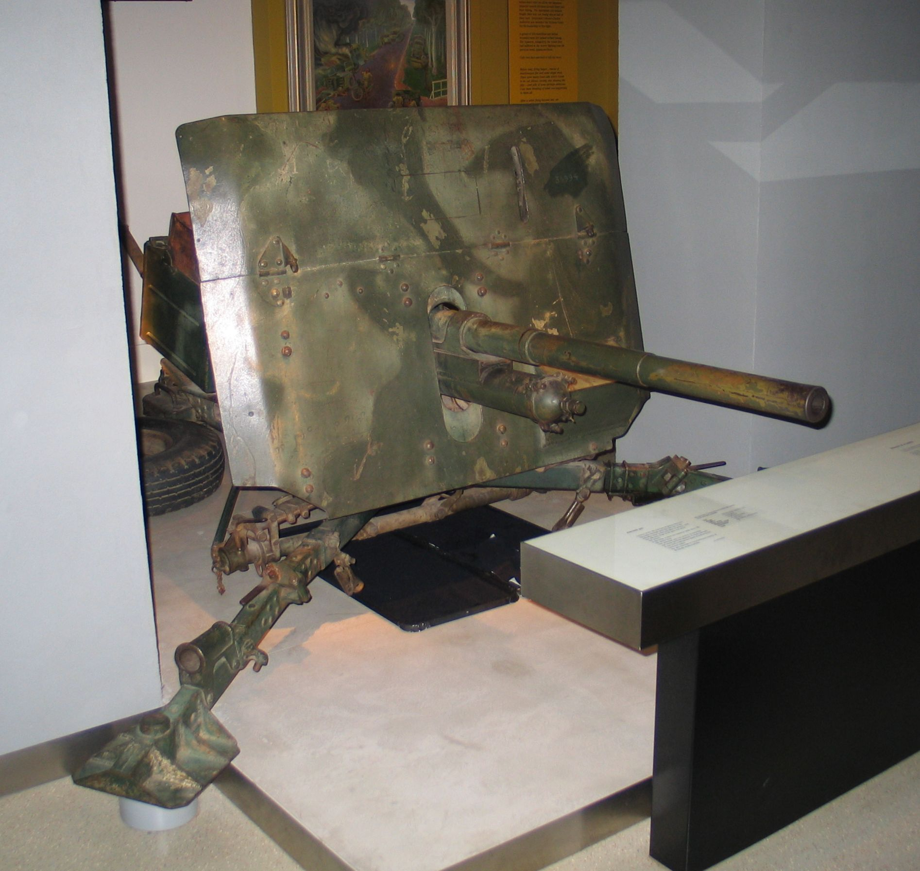 QF 2 pounder anti-tank gun, in Australian War Memorial, Canberra, Australia.